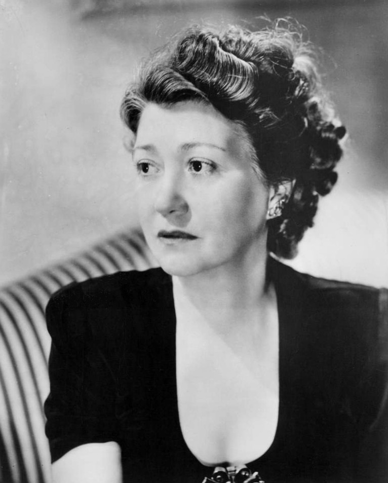 Photo of Fay Bainter from an appearance on Schlitz Playhouse of Stars.